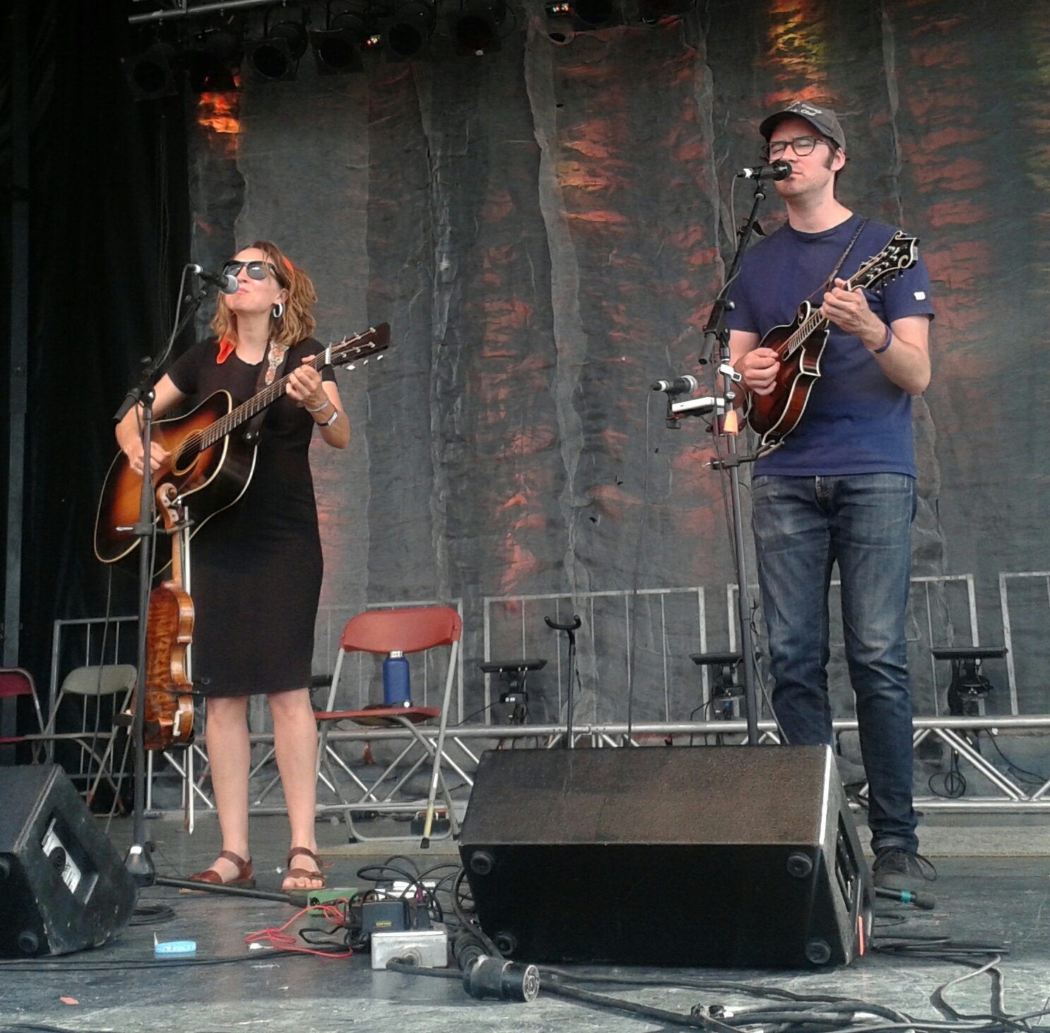 Mandolin Orange photographed in Montréal , Québec, Canada at the Folk sur le canal Festival.